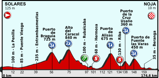 Profile of the 18th stage: Vuelta a España 2011